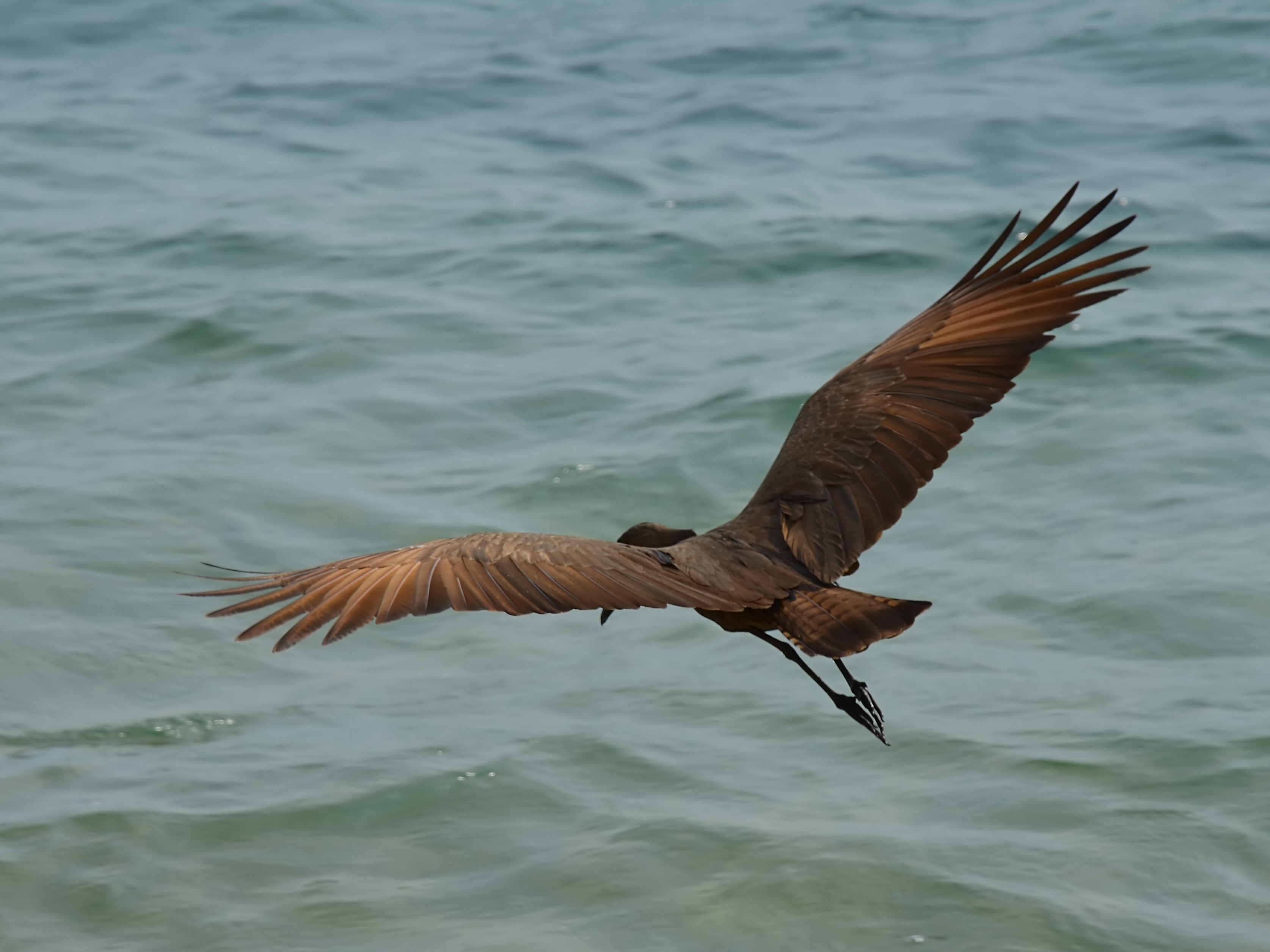 Hammerkop in flight at Lake Malawi, Malawi